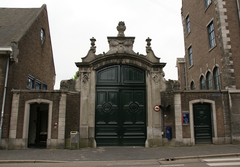 National monument no. 27665 - Gate - Tongersestraat 53, Maastricht, The Netherlands.